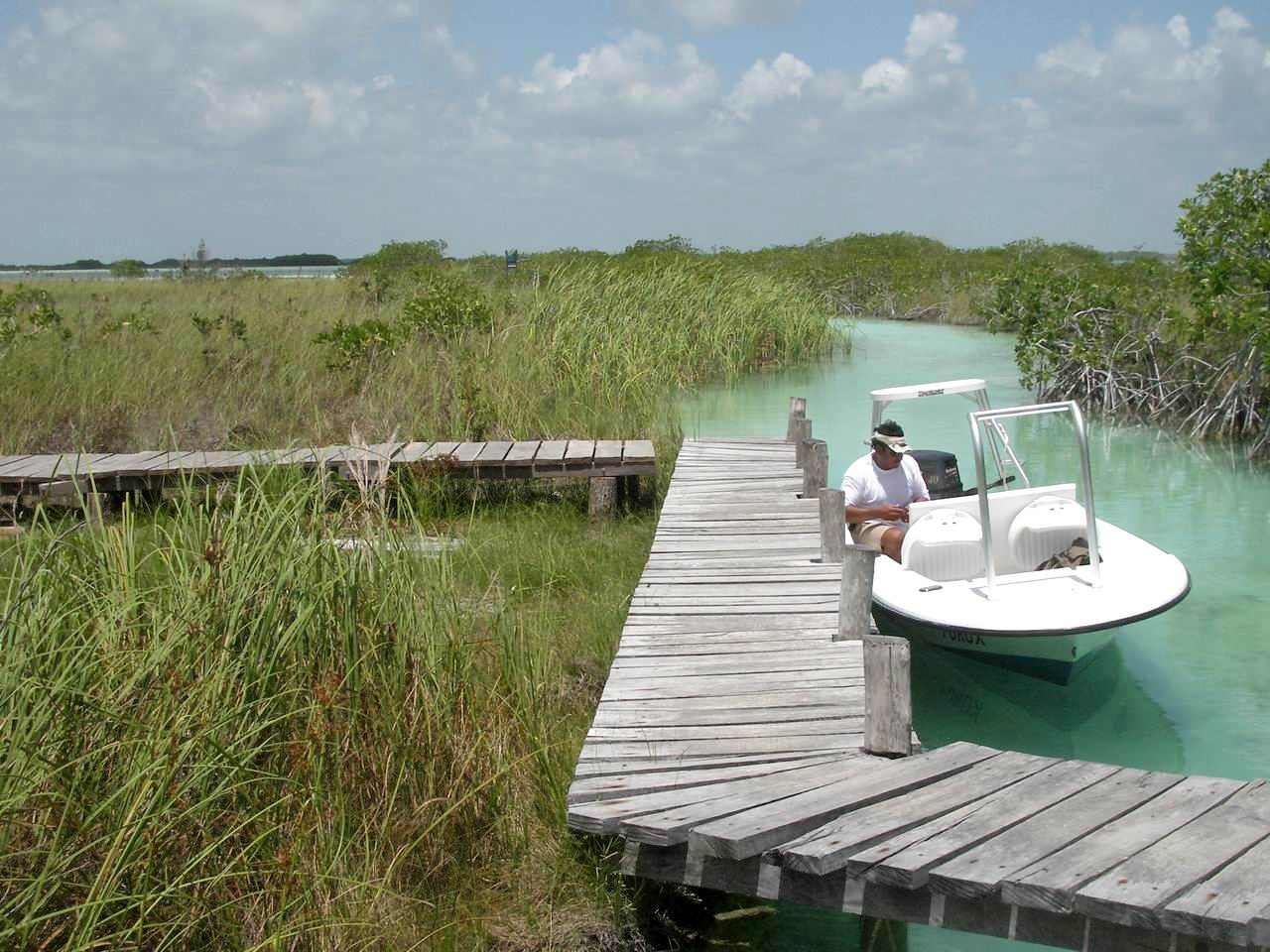 Sian Ka'an boat tour